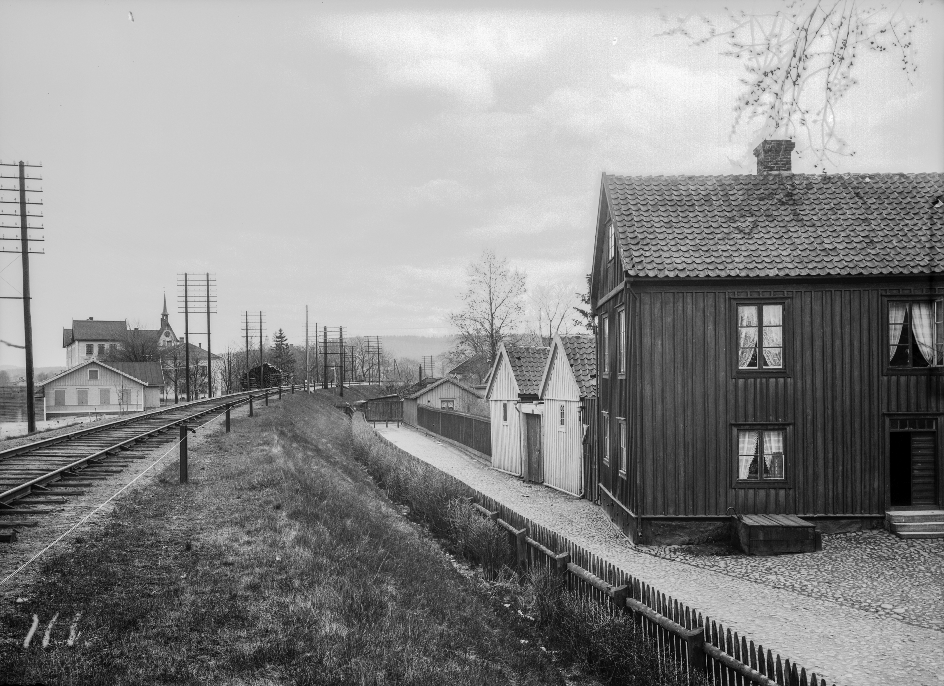 Norra Strandgatan och Båtsmansbacken nr: 9 i Jönköping. Båtsmansbacken kallades för Snurrarebacken efter en repslagarbana. 1875 års stadsplan förlängde Norra Strandgatan från Kristine kyrka till Båtmansgränden. Till höger syns Båtmansbacken och till vänster, på andra sidan järnvägsbanken, Östra kallbadhuset och Östra skolan, idag Liljeholmsskolan.